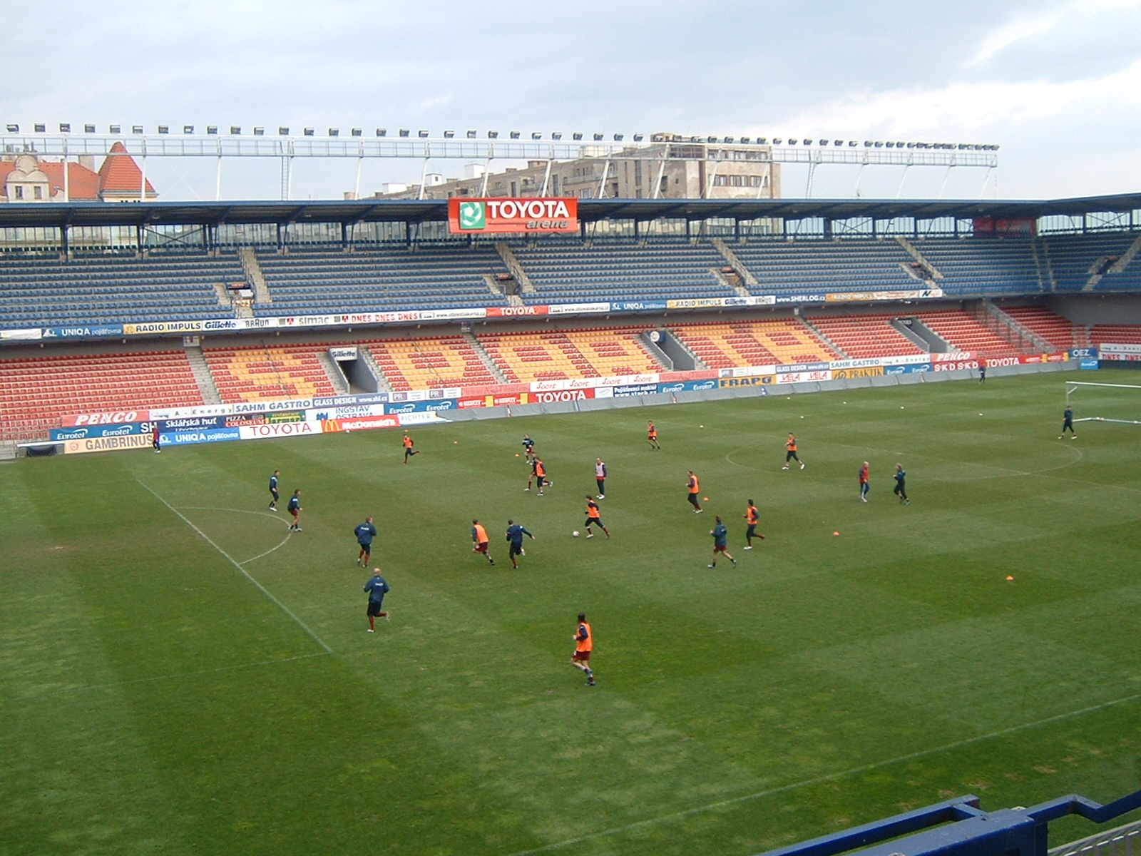 Football stadium of AC Sparta Prague on Letná (then called “Toyota Arena”)